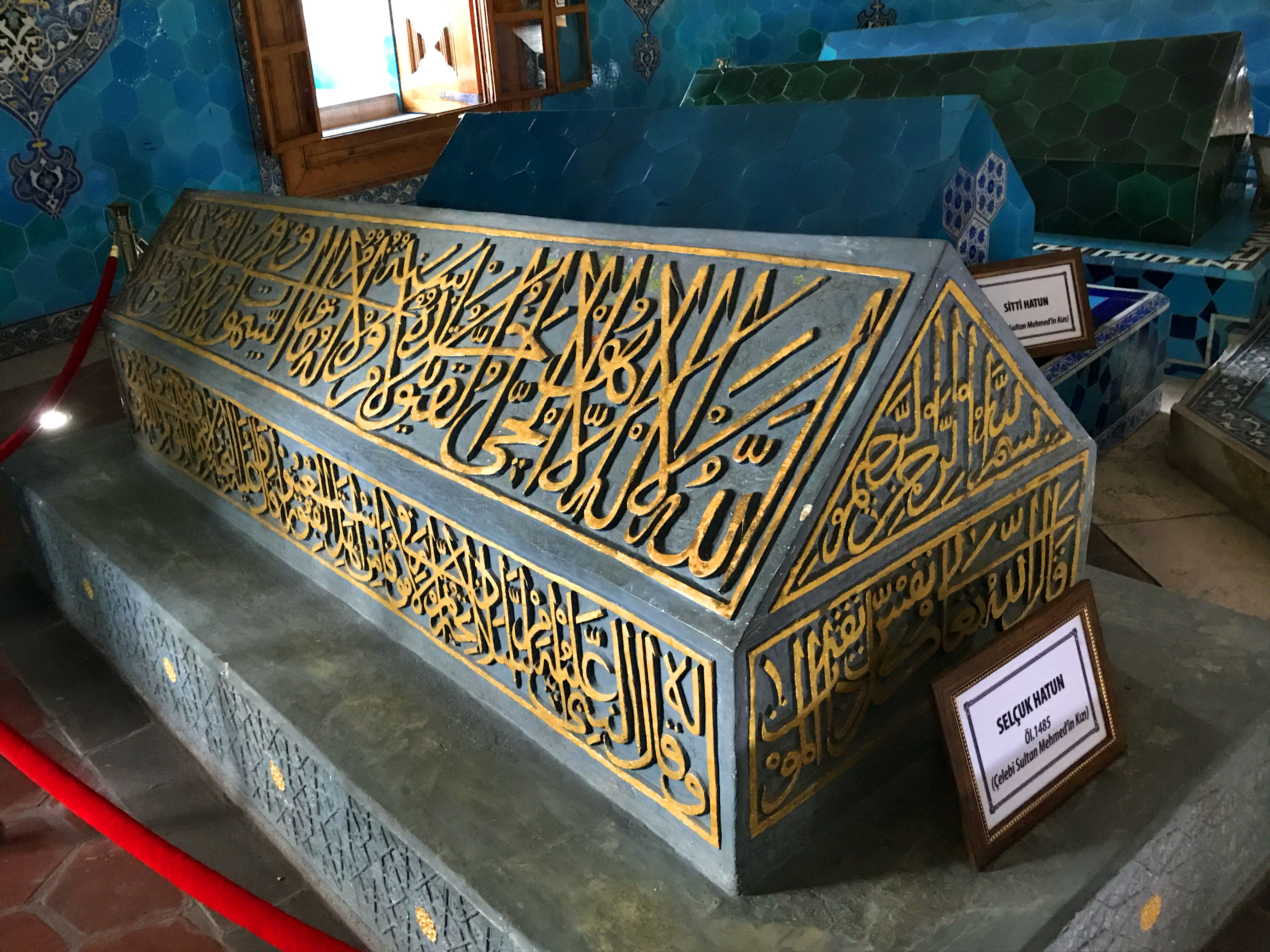 The Green Tomb (Yeşil Türbe) is a mausoleum of the fifth Ottoman Sultan, Mehmed I, in Bursa, Turkey. It was built by Mehmed's son and successor Murad II following the death of the sovereign in 1421. The architect, Hacı Ivaz Pasha designed the tomb and the Yeşil Mosque opposite to it